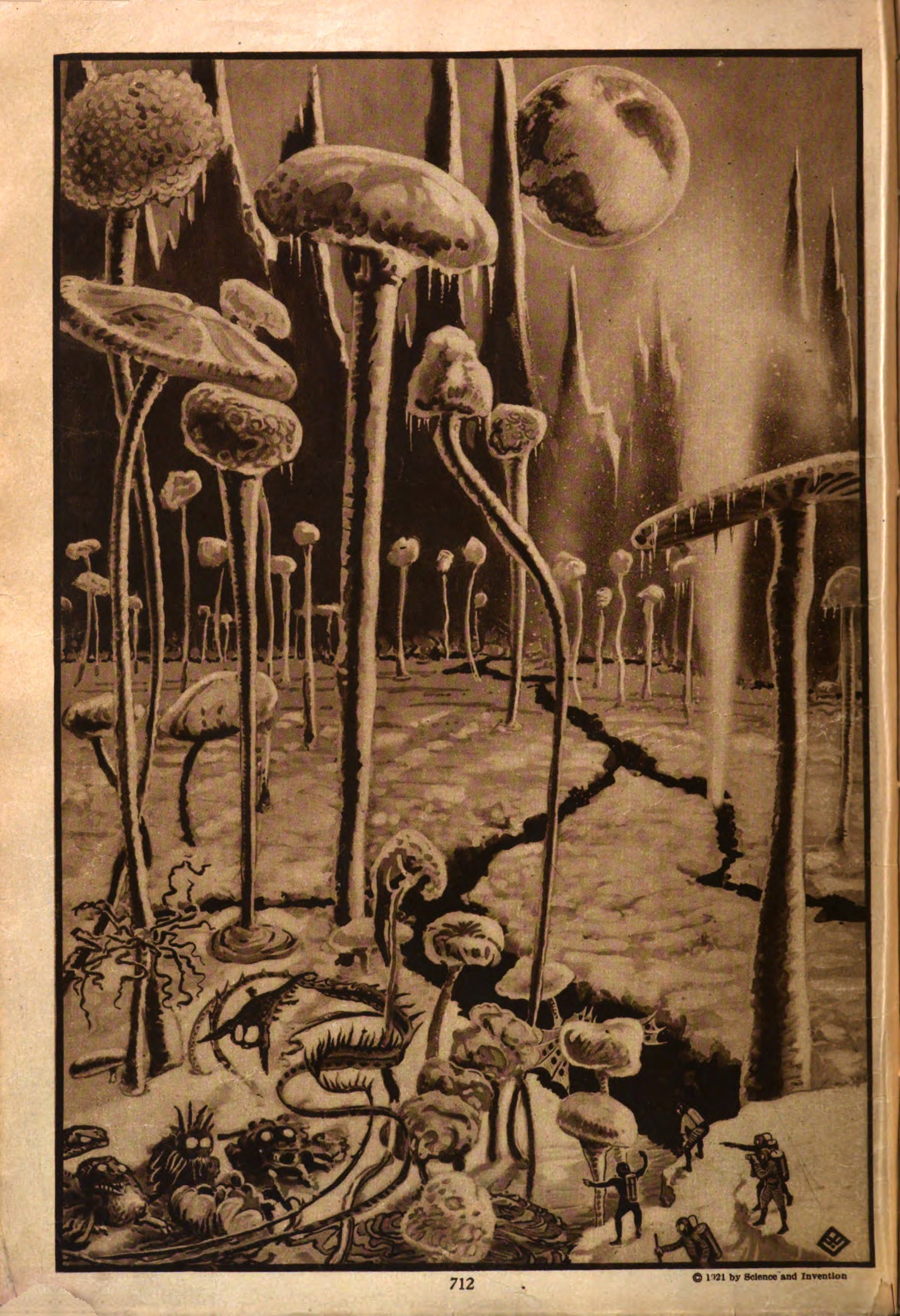 Drawing of possible life on the Moon, illustrating accompanying article "Crops Grow on Moon" on astronomer William F. Pickering's speculations that the Moon can support life